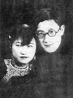 Xu Zhimo and his second wife Lu Xiaoman